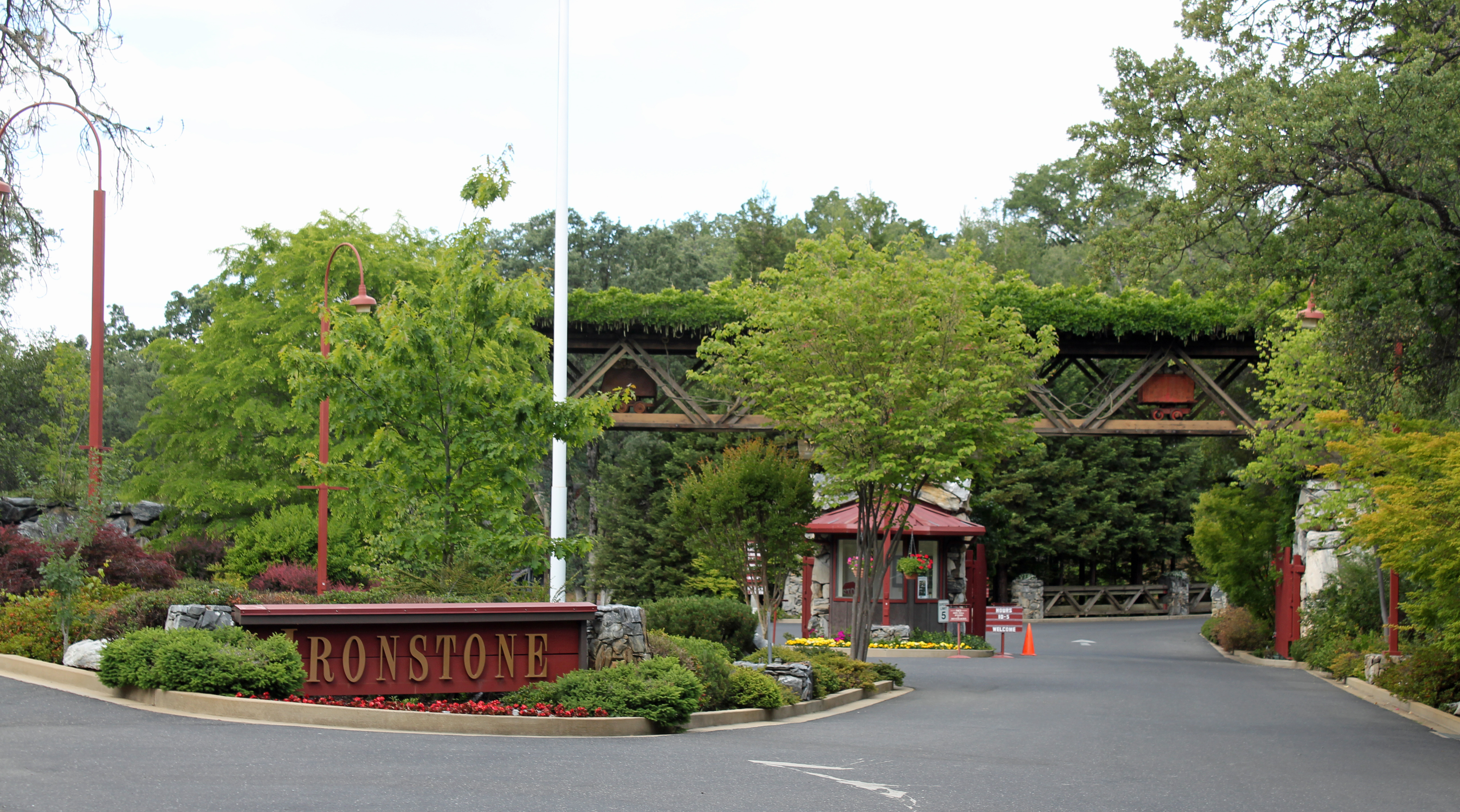 The entrance to the visitors' center of Ironstone Vineyards. The building is located at 1894 Six Mile Road, Murphys, California 95247.